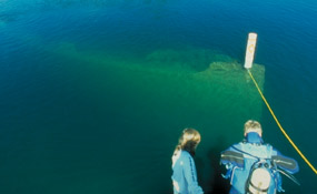 Diving the America, Isle Royale national Park.